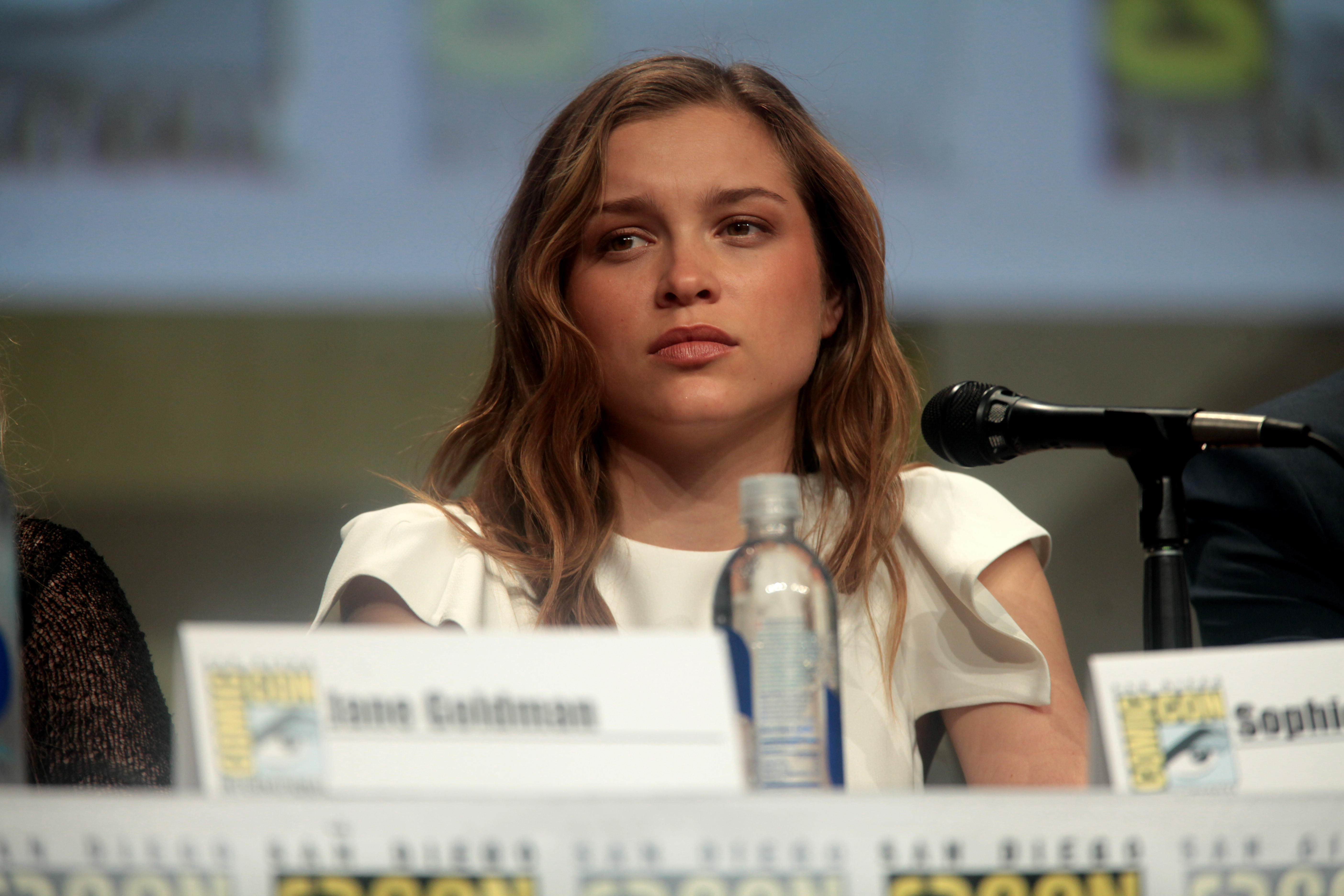 Sophie Cookson speaking at the 2014 San Diego Comic Con International, for "Kingsman: The Secret Service", at the San Diego Convention Center in San Diego, California.